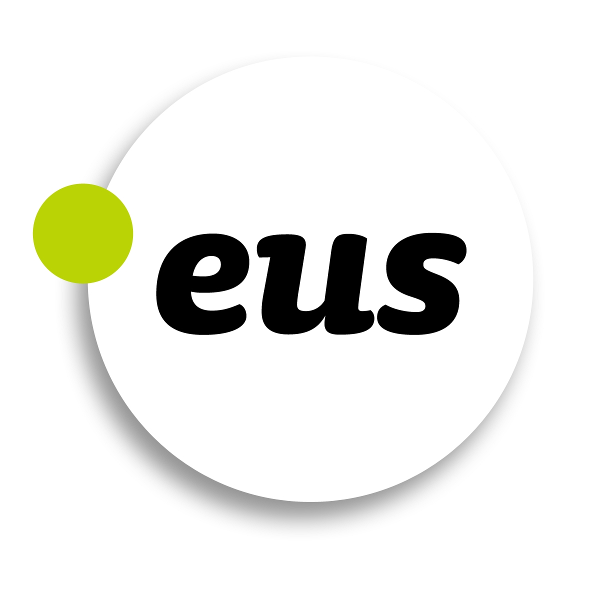 Logo of the PuntuEUS Fundation